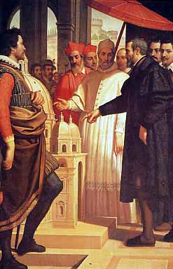 Bramante presenting his model to Julius